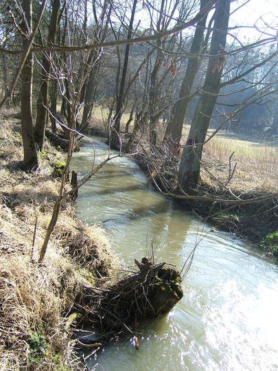 The Stepanovsky creek, main part of nature preserve Stepanovsky potok.